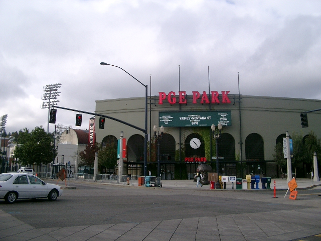 Main facade of PGE Park in Portland, Oregon. Photo taken by myself. 10:42, 11 November 2005 . . Ajbenj . . 640×480 (259,056 bytes)